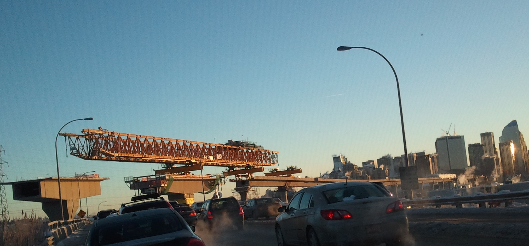 West LRT construction over Bow Trail, Calgary, Alberta, Canada